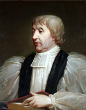 Portrait of John Kearney by William Cuming, about 1810.